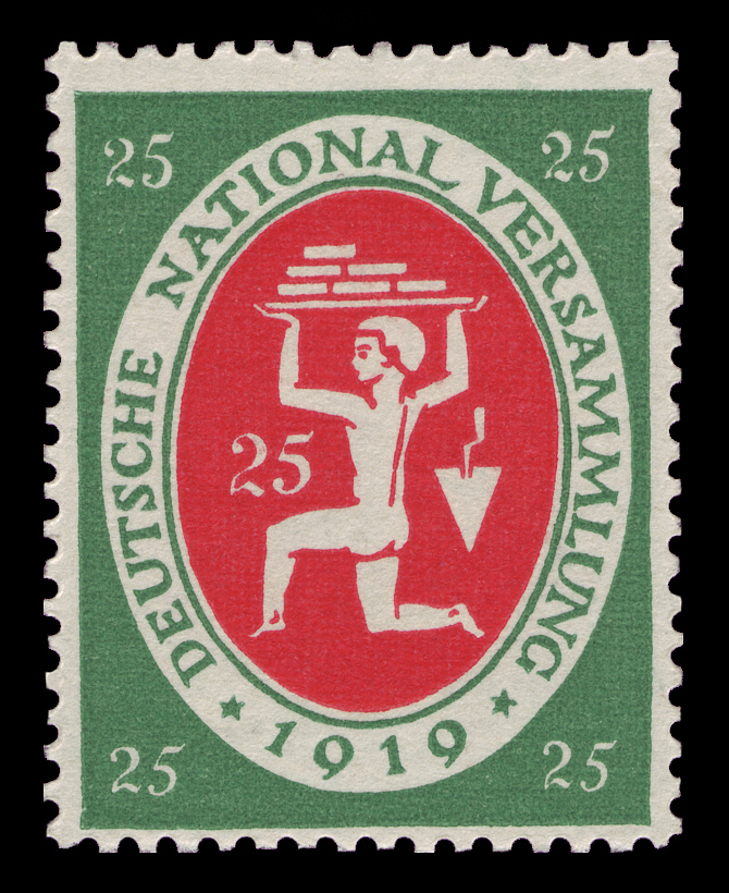 Opening of the Weimar National Assembly Graphics by Georg Mathéy Ausgabepreis: 25 Pfennig First Day of Issue / Erstausgabetag: 1. Juli 1919 Michel-Katalog-Nr: 109 (Deutsches Reich)